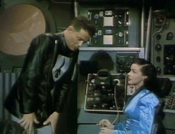 Arthur Franz and Marguerite Chapman in Flight to Mars (1951) - trailer (cropped screenshot)